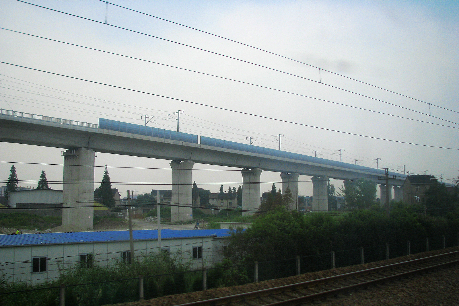 Huhang high-speed Railway (Shanghai-Hangzhou) in construction, August 2010.